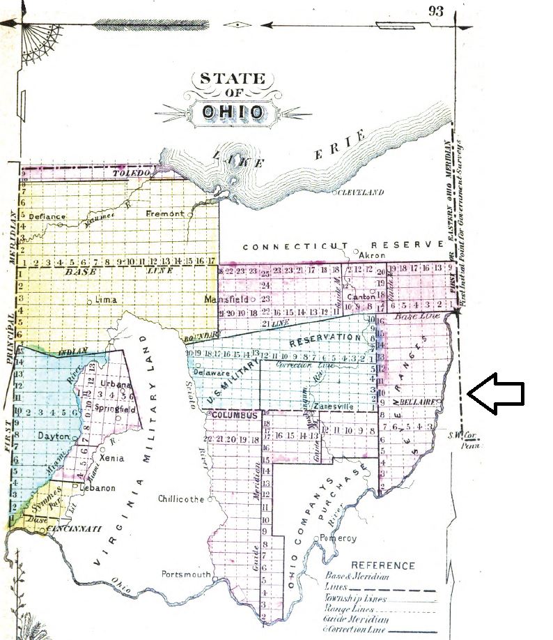 Show location of the Seven Ranges in Ohio